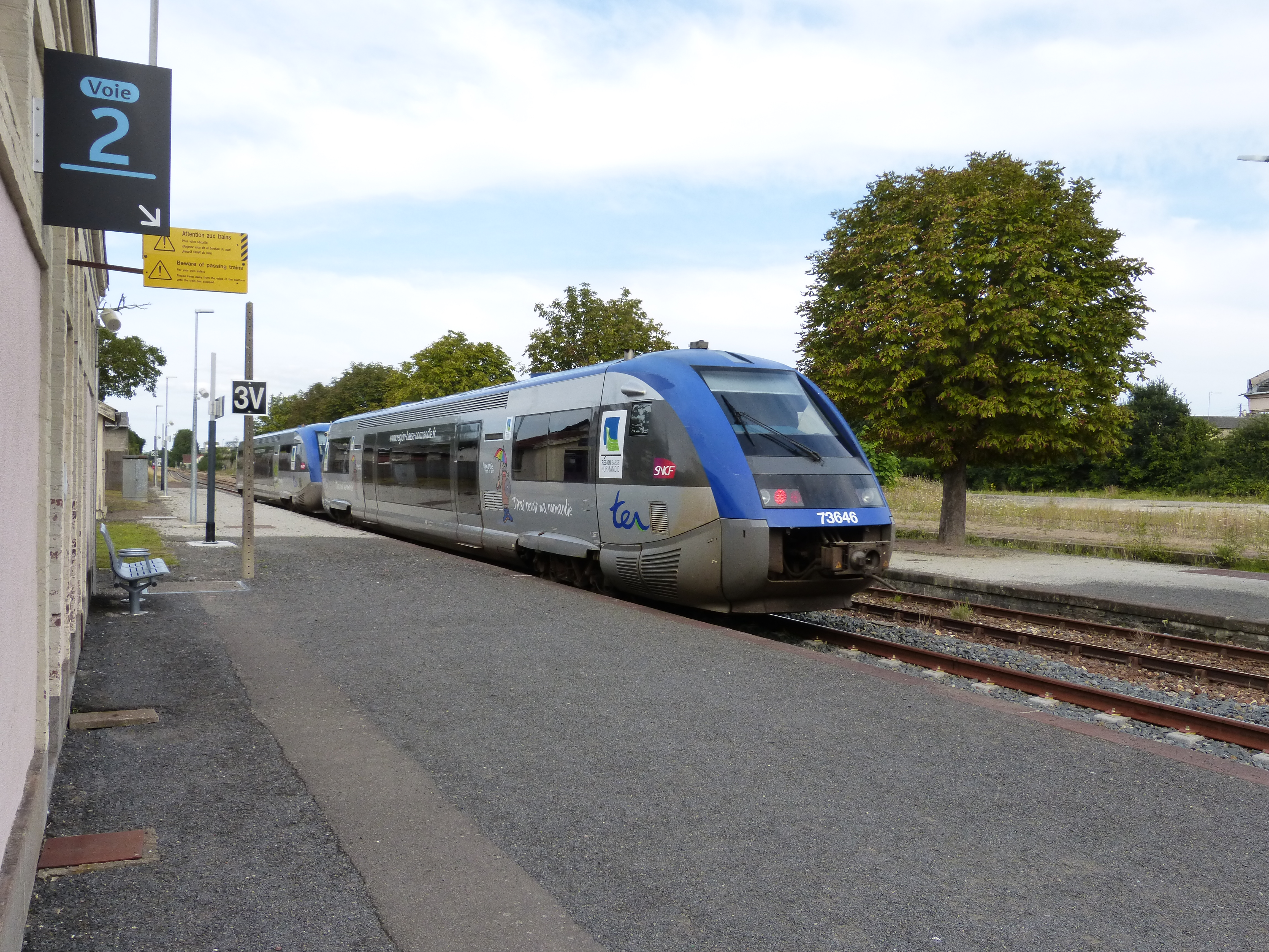 A TER X 73651 and X 73646 in multiple unit leaving Pontorson - Mont-Saint-Michel railway station for Avranches.